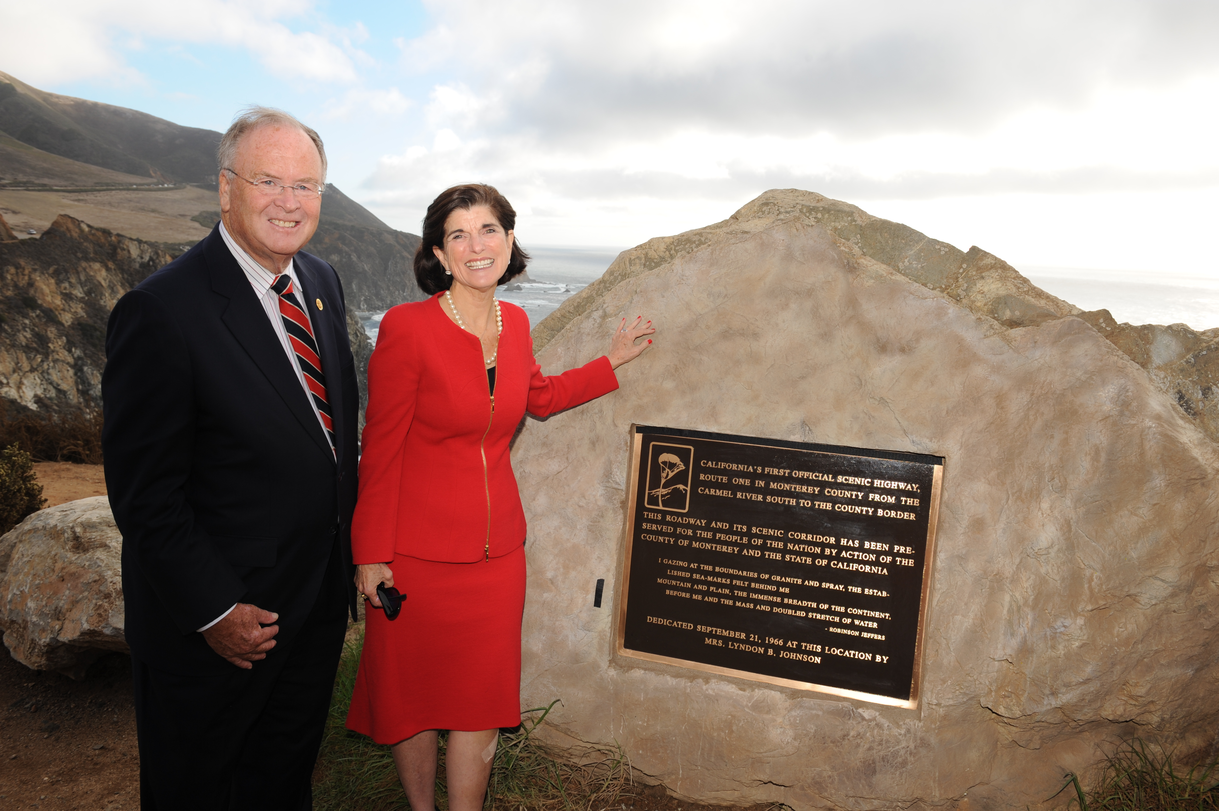 (L-R) Congressman Sam Farr and Luci Baines Johnson at the Bixby Creek Bridge on California's famed Pacific Coast Highway, the LBJ Foundation celebrated the 50th Anniversary of the Highway Beautification Act. President Johnson's daughter, Luci Baines Johnson, rededicated a plaque at the Bixby Creek Bridge Scenic Overlook that her mother, Lady Bird Johnson, first installed 50 years prior.